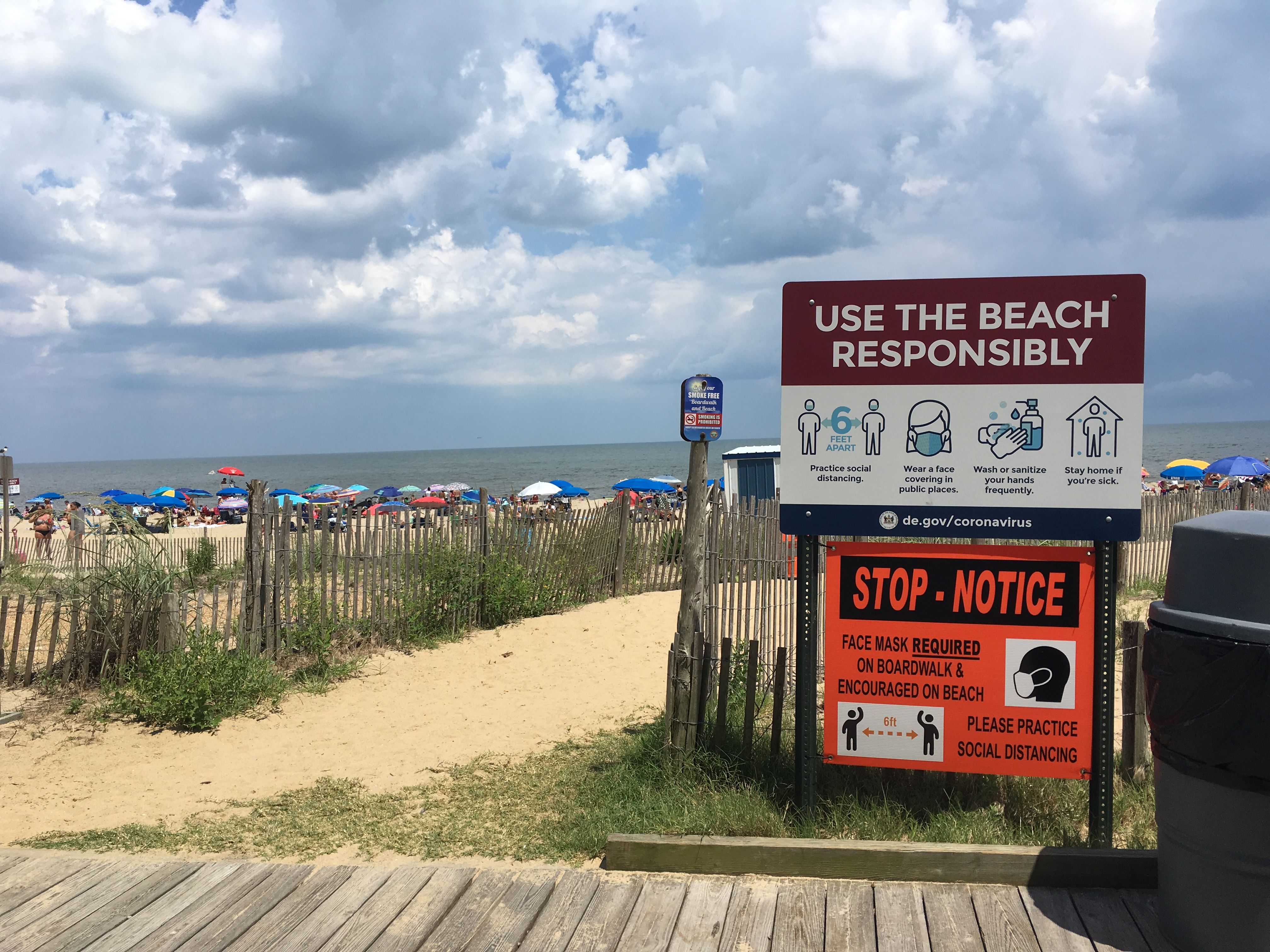 Entrance to the beach in Rehoboth Beach, Delaware with a sign listing how to use the beach safely during the COVID-19 pandemic